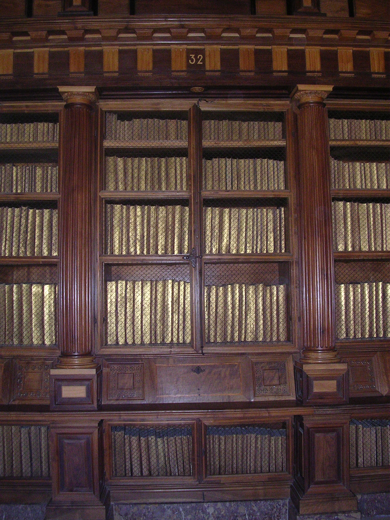 Madrid, Spain